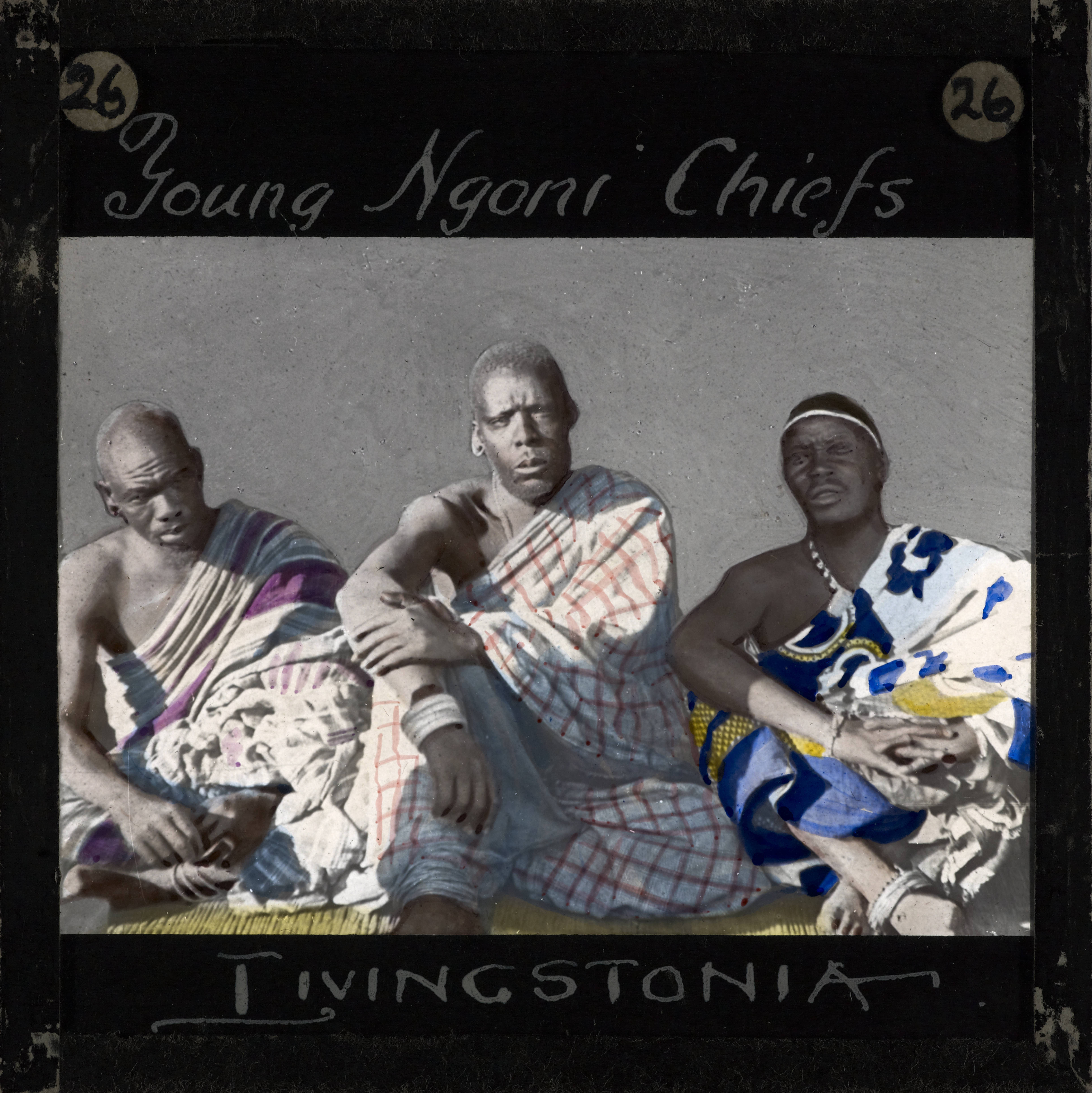 Three Young Ngoni Chiefs, Malawi, [s.d.] Photograph of three young men, Ngoni Chiefs. The men are pictured seated on the ground on a mat. The Ngoni people are an ethnic group living in Malawi, Mozambique, Tanzania and Zambia, in east-central Africa.; This belongs to a series of Church of Scotland Foreign Missions Committee lantern slides relating to Dr Robert Laws (1851-1934) the Scottish Missionary. In 1875, inspired by David Livingstone (1813-1873), Laws travelled to Malawi and was involved in the foundation of the mission station of Livingstonia on the shores of Lake Nyasa. During the succeeding 50 years he also established a network of hundreds of schools. In 1908 Laws was elected moderator of the General Assembly of the United Free Church of Scotland. Photographer: Unknown Subject (personal name): Laws, Robert, 1851-1934 Filename: imp-cswc-GB-237-CSWC47-LS5-1-026.tif Coverage date: 1875/1925 Part of collection: International Mission Photography Archive, ca.1860-ca.1960 Type: images Part of subcollection: Photographs from the Centre for the Study of World Christianity, University of Edinburgh, U.K., ca.1900-ca.1940s Repository name: Centre for the Study of World Christianity Archival file: impaunpub_Volume7/1529.url Repository address: The University of Edinburgh School of Divinity, New College, Mound Place, Edinburgh EH1 2LX, United Kingdom Geographic subject (country): Malawi Format (aacr2): 1 lantern slide : 8 x 8 cm. Geographic subject (continent): Africa Rights: Contact the repository for details. Part of series: Laws of the Pioneer LS5/1 Repository Subject (lcsh Keyword): Young men; Village communities Date created: 1875/1925 Publisher (of the digital version): University of Southern California. Libraries Subject (aat genre): group portraits Format (aat): lantern slides Legacy record ID: impa-m68587 Access conditions: File: GB 237 CSWC47/LS5/1/26